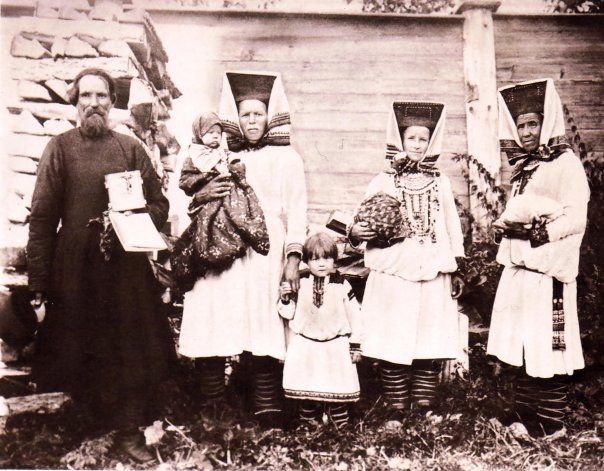 Meadow Mari family from Tsarevokokshaysk uyezd of Russian Empire's Kazan governorate